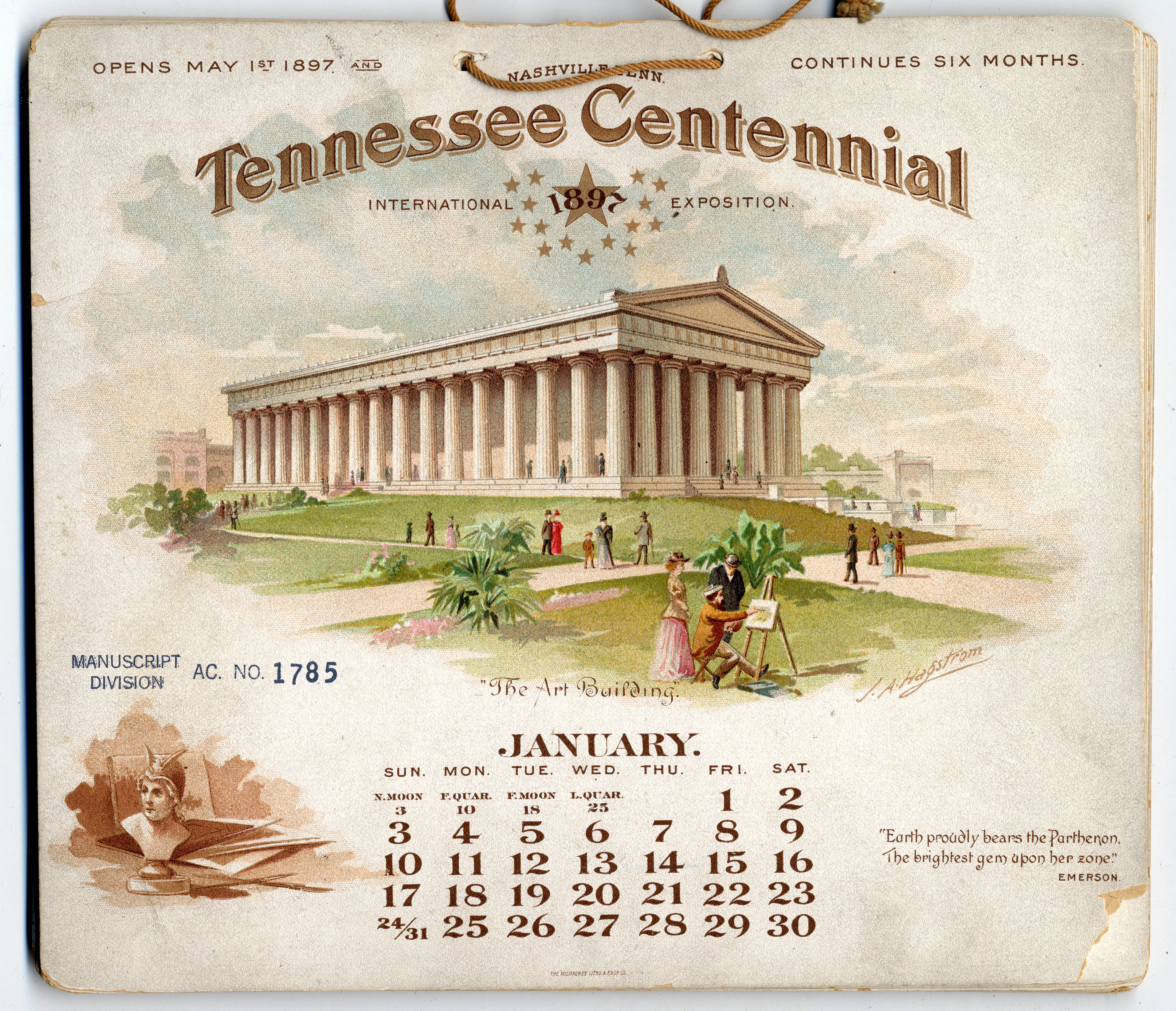 This promotional calendar from 1897 featured various buildings each month , including this colorful drawing of the Parthenon. Tennessee Centennial Exposition, Tennessee State Library and Archives.